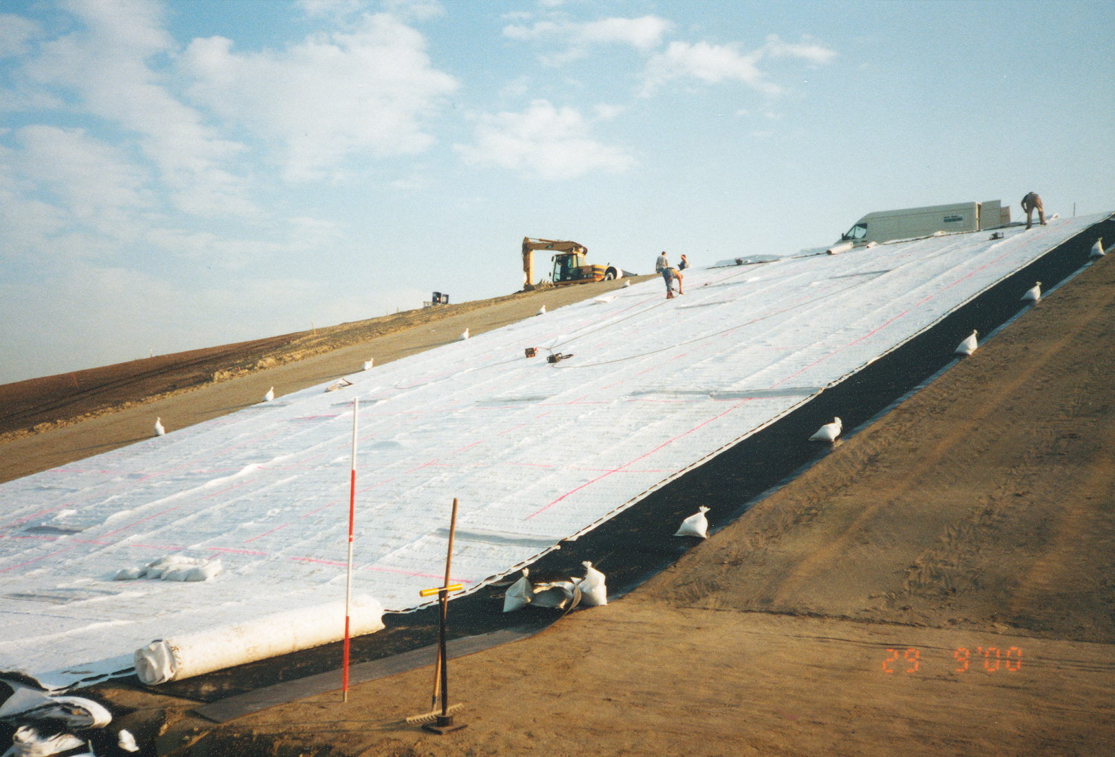 Installation of a geocomposite drain. Geocomposite drains are in most cases used on more or less steep slopes of landfill capping systems.